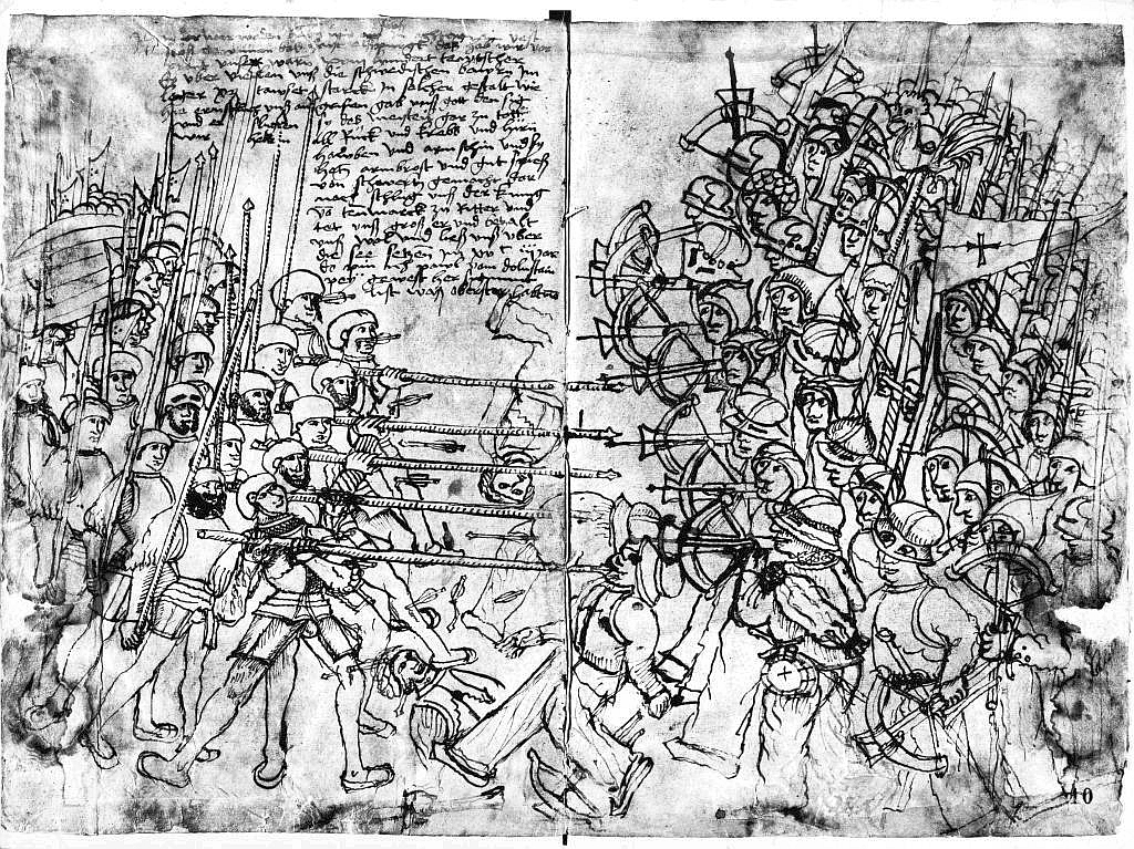 Scene from the begin of the Dano-Swedish war (1501-1512), Danish and German mercenaries are fighting against rebellious Swedish peasant's forces